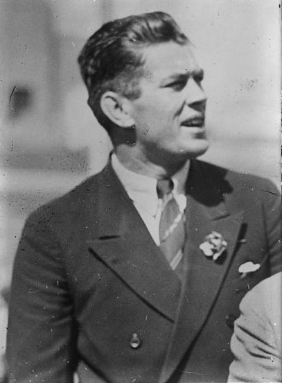 Gene Tunney (1897 – 1978), American boxer